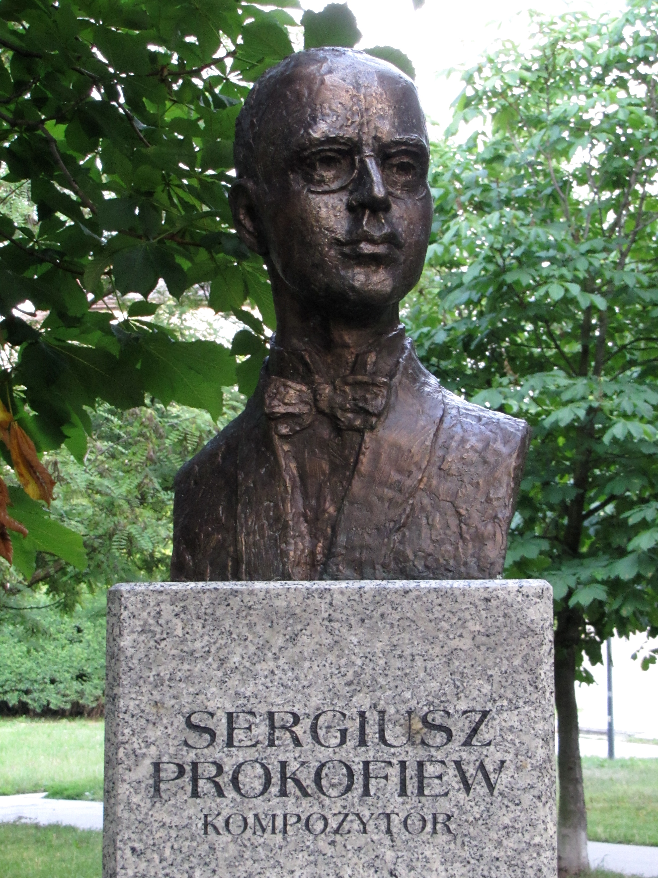 Bust of Sergei Prokofiev in Celebrity Alley in Kielce (Poland)